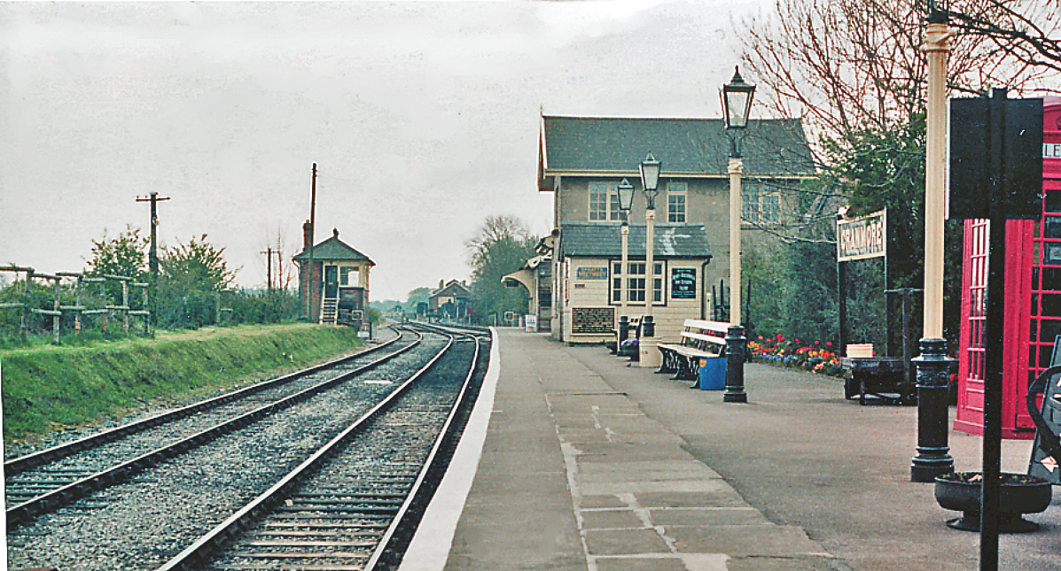 Cranmore station, 1987. View westward, towards Mendip Vale, formerly towards Wells, Cheddar and Yatton, before the station was rebuilt in 1991 by the heritage East Somerset Railway, which acquired it 1972-85. The original Great Western line, Yatton - Wells - Witham closed 9/9/63, but goods Cranmore - Witham 17/1/66. On 19/8/70 a branch from Merehead Quarry nearby to Witham was opened and the stone traffic continues. Note the heritage ESR's Engine Shed in the distance.